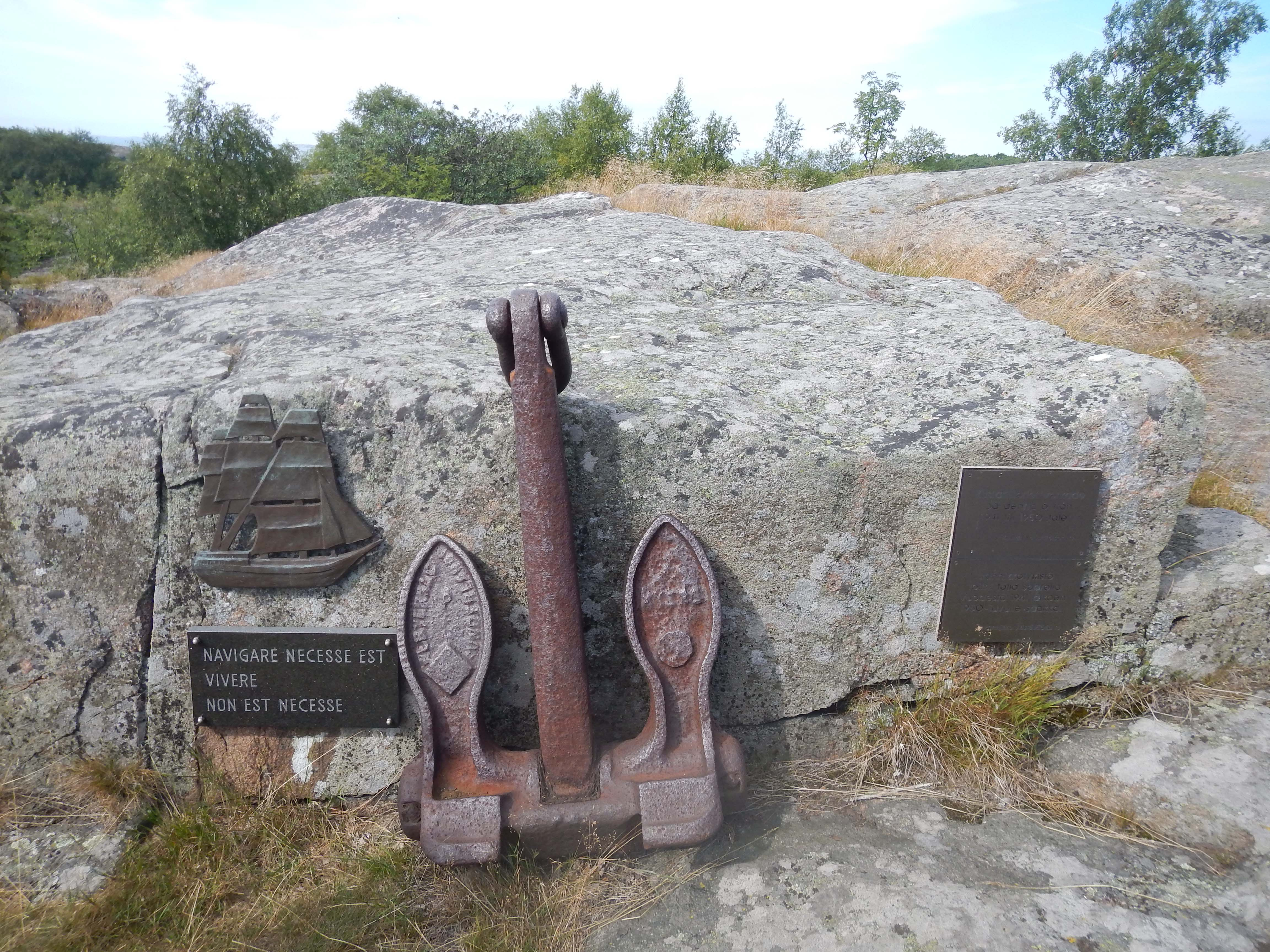 Island of Borstö in southernmost Nagu